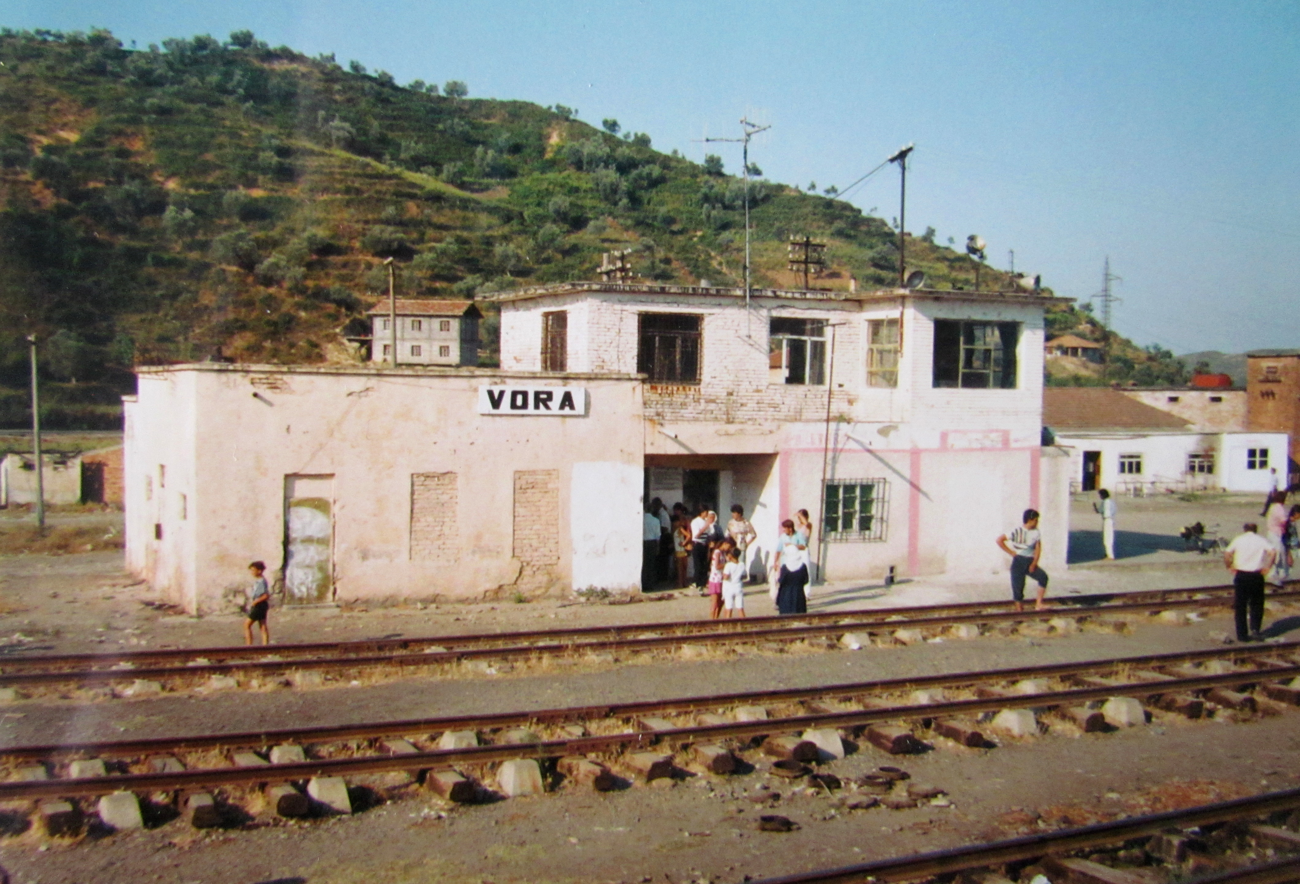 Railway station of Vora, Albania, 1995